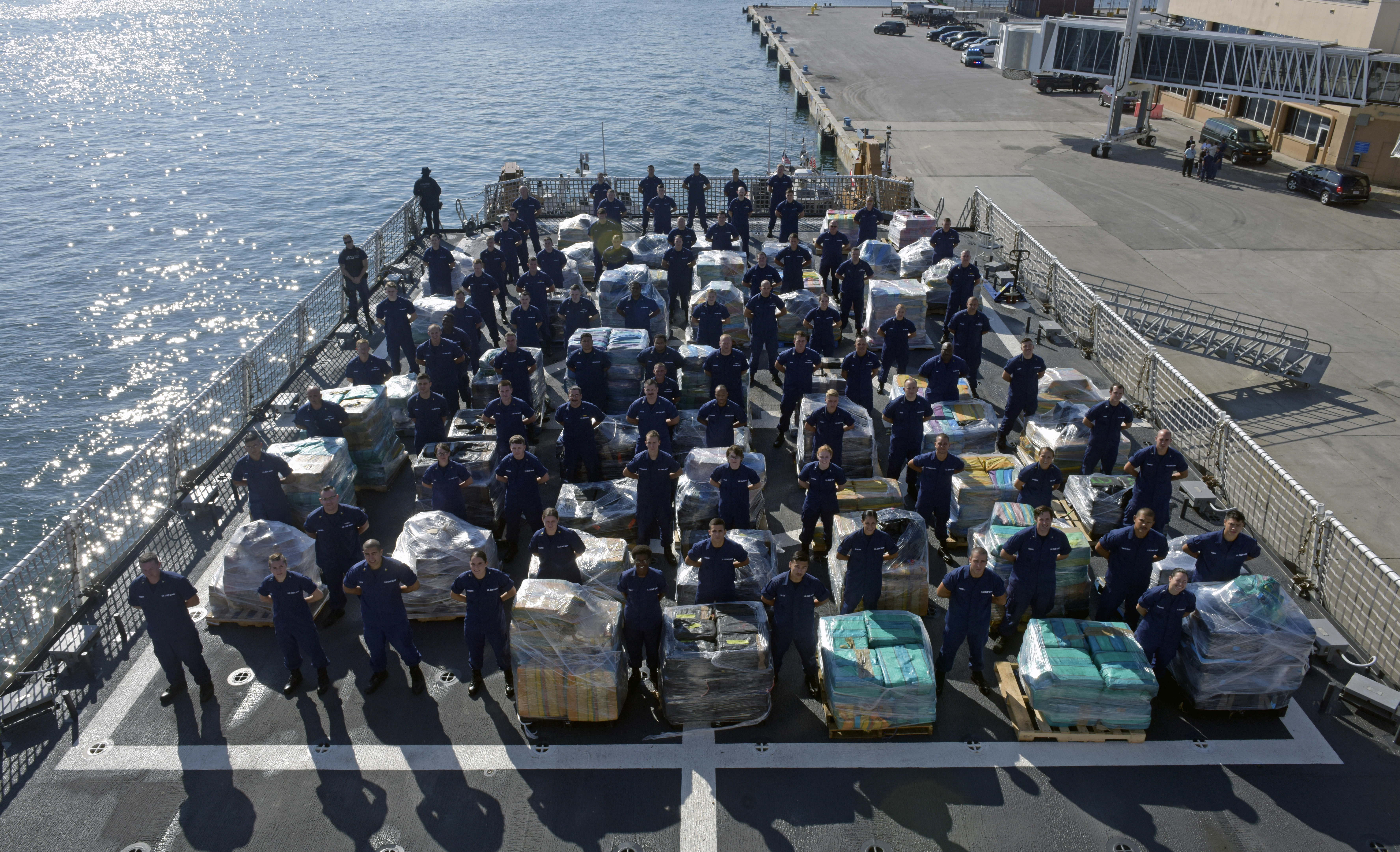 Members of the Coast Guard Cutter Hamilton crew stand next to approximately 26.5 tons of cocaine Dec. 15, 2016 aboard the cutter at Port Everglades Cruiseport in Fort Lauderdale, Florida. The crew of the Coast Guard Hamilton offloaded the cocaine in Port Everglades worth an estimated $715 million wholesale seized in international waters off the Eastern Pacific Ocean since Oct. 1, 2016. (U.S. Coast Guard photo by Petty Officer 3rd Class Eric Woodall) Unit: U.S. Coast Guard District 7 DVIDS Tags: Drugs; USCG; Interdiction; CGC; USSOUTHCOM; Operation Martillo; U.S. Coast Guard, United States Coast Guard, Coast Guardsman, USCG; Noegenesis; USCGC HAMILTON (WMSL 753), Legend-class